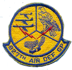 Emblem of the 827th Radar Squadron -- later used by the 827th Air Defense Group